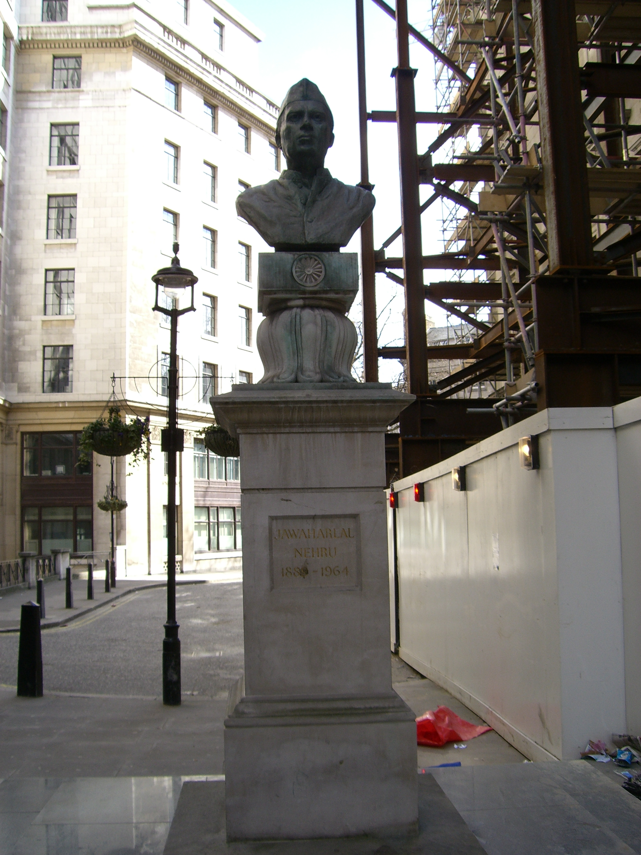 Statue of Jawaharlal Nehru in Aldwych Photo taken by User:Edward on 19 March 2006 with a Casio EX-S600.